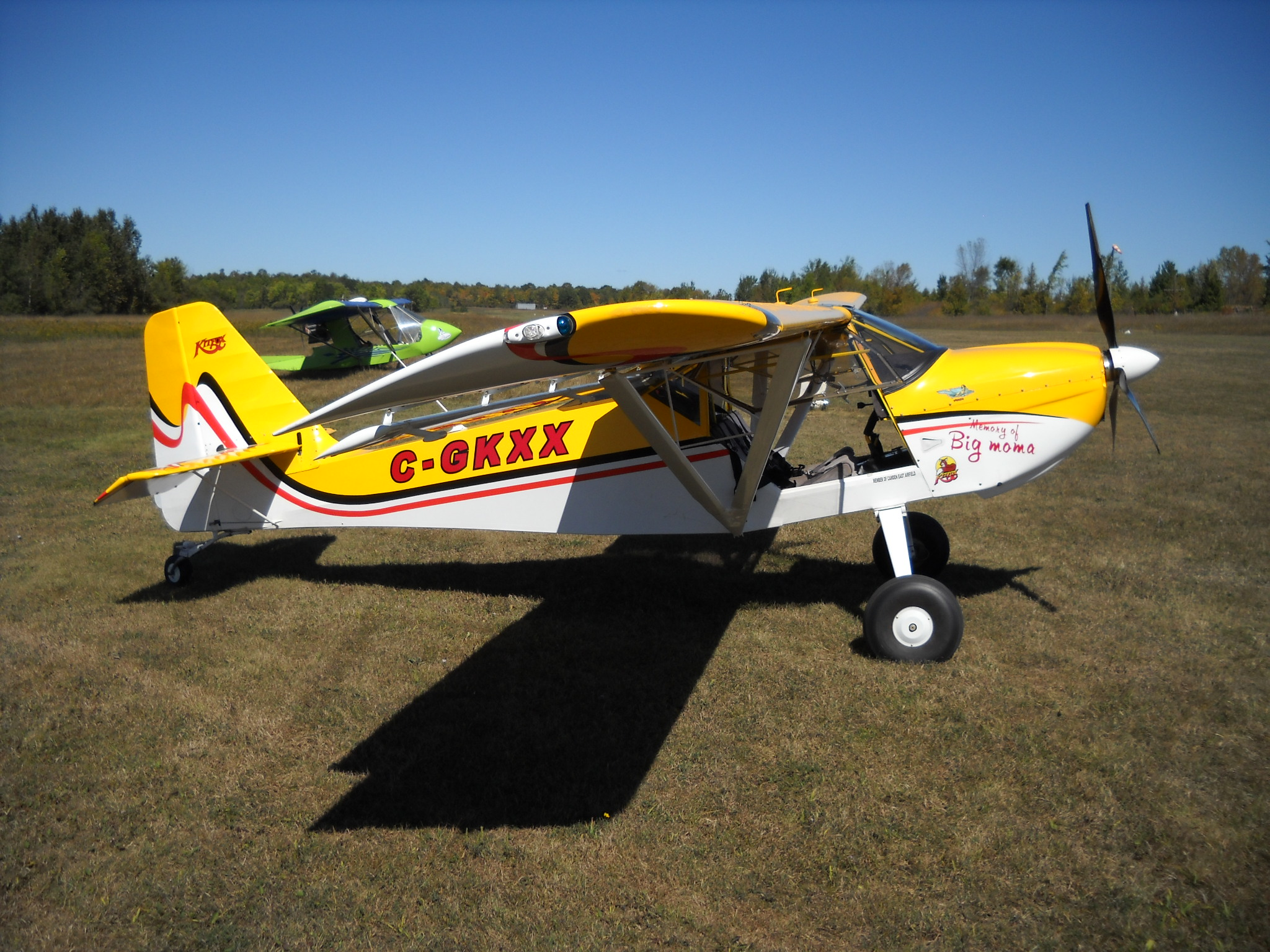 A SkyStar Kitfox Series 6 at the Carleton Place, Ontario, Canada fly-in